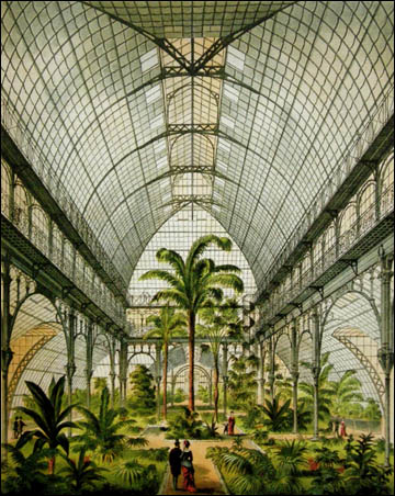 Palm house (Schönbrunn) 1883 PR-picture of JG Gridl Steel and bridge constructors, Vienna